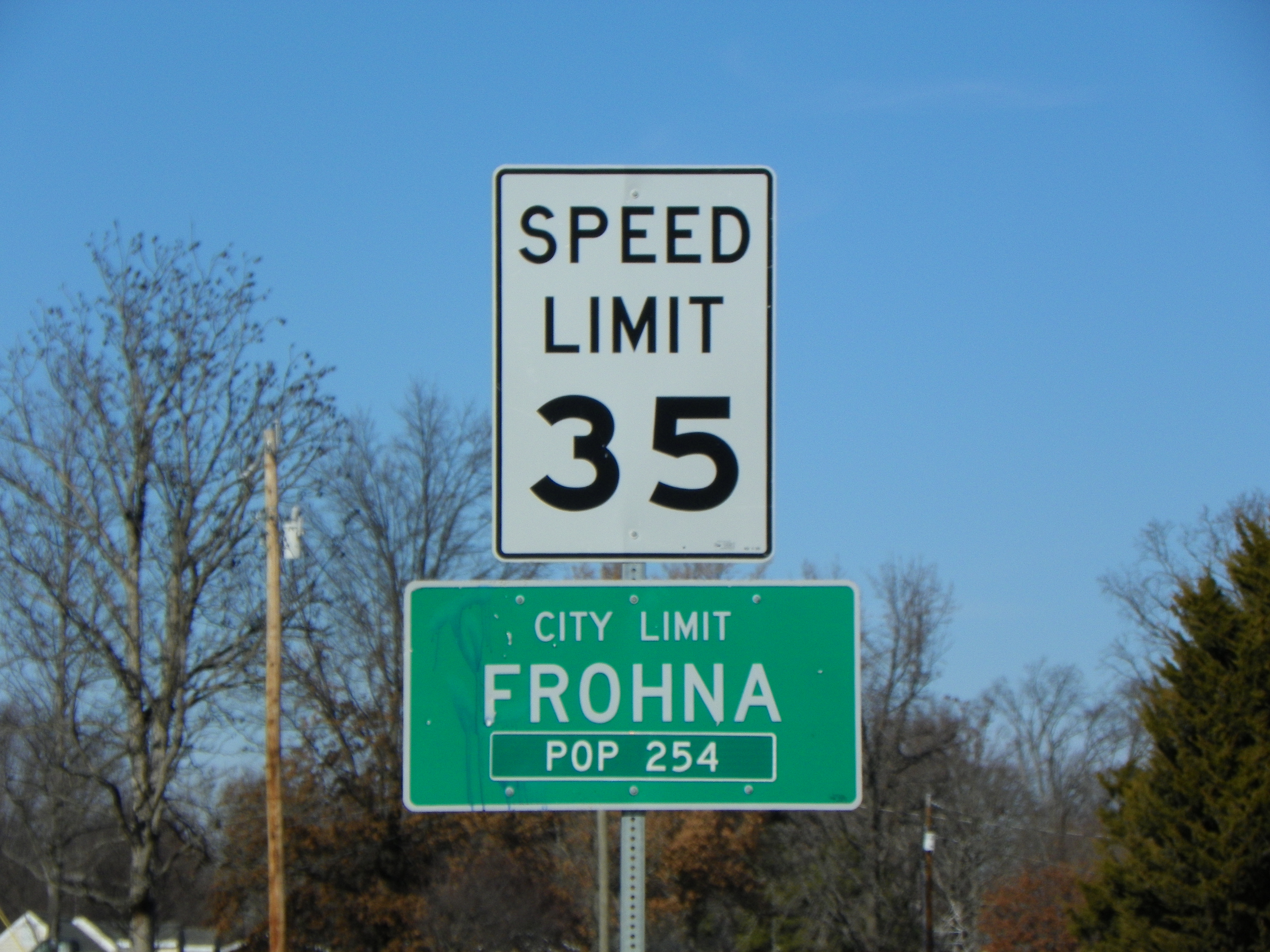 Frohna, Missouri, road sign